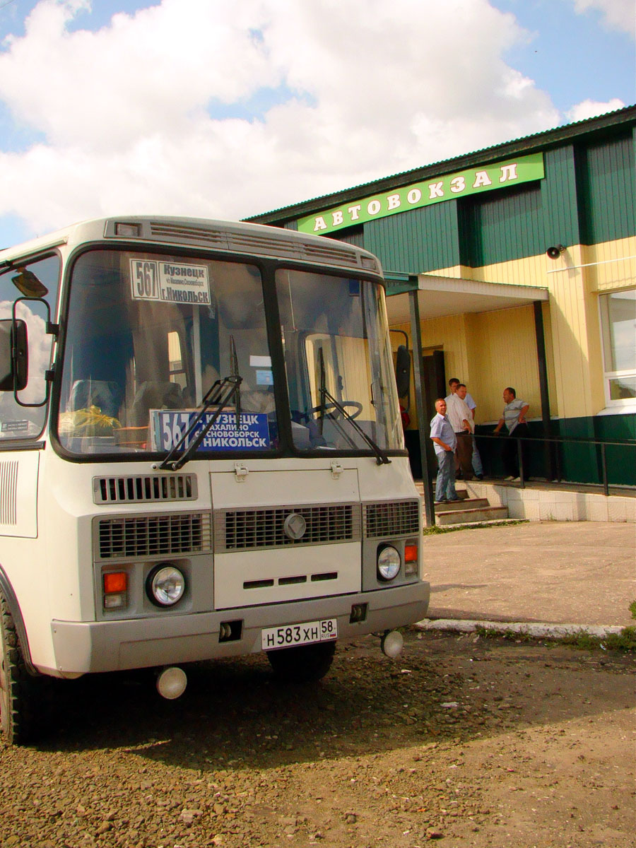 Nikolsk town. Russia, Penza Region. Bus station.